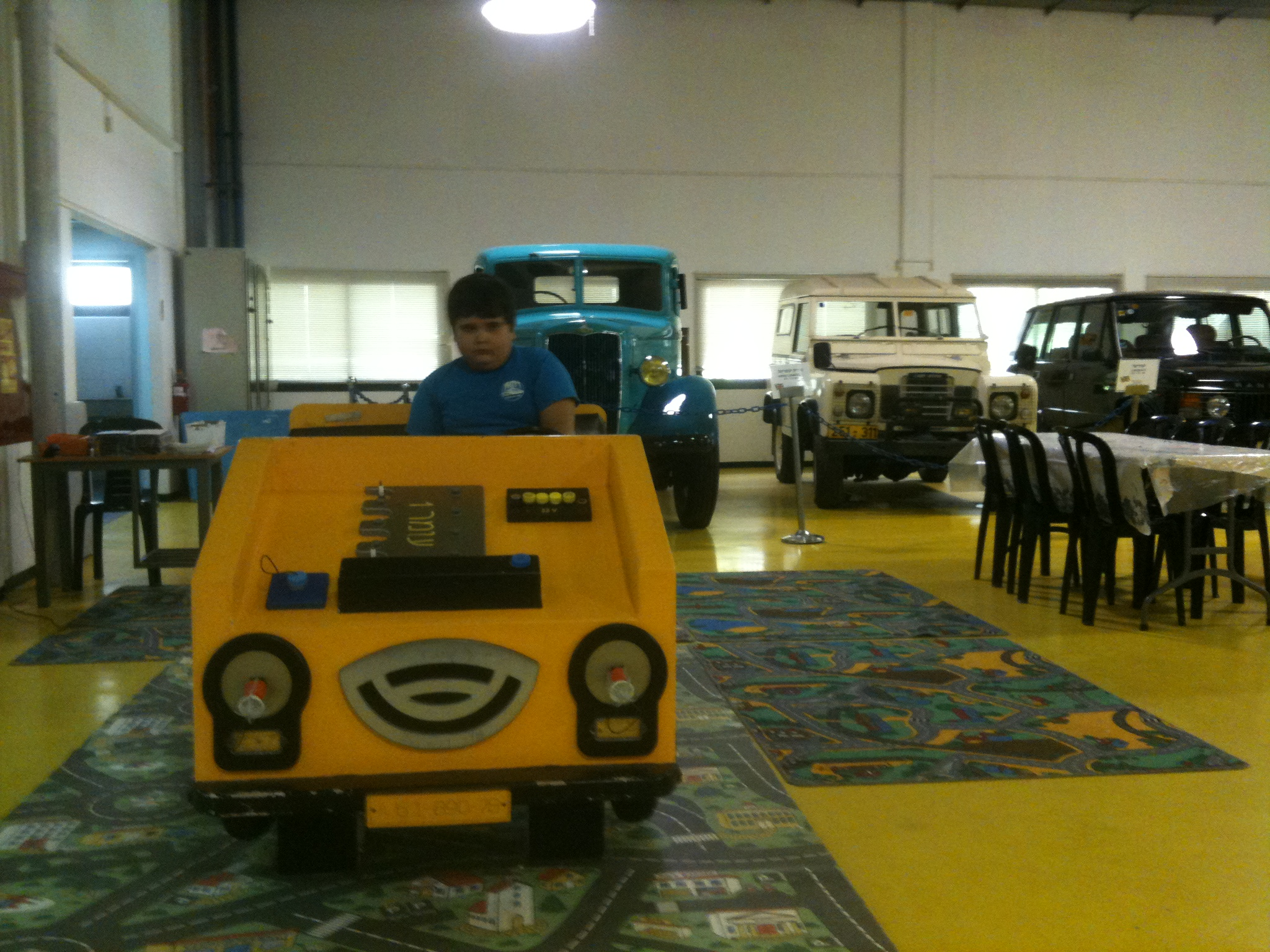 Omer Open Museum Israel